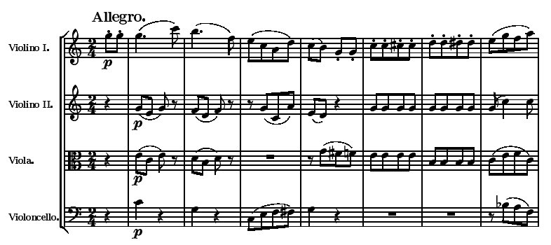 Opening of 4th Movement of Quartet No. 19 (Mozart) "Dissonance" Breitkopf & Härtel edition, 1882, typeset by Maurizio Tomasi and released by him into the public domain.